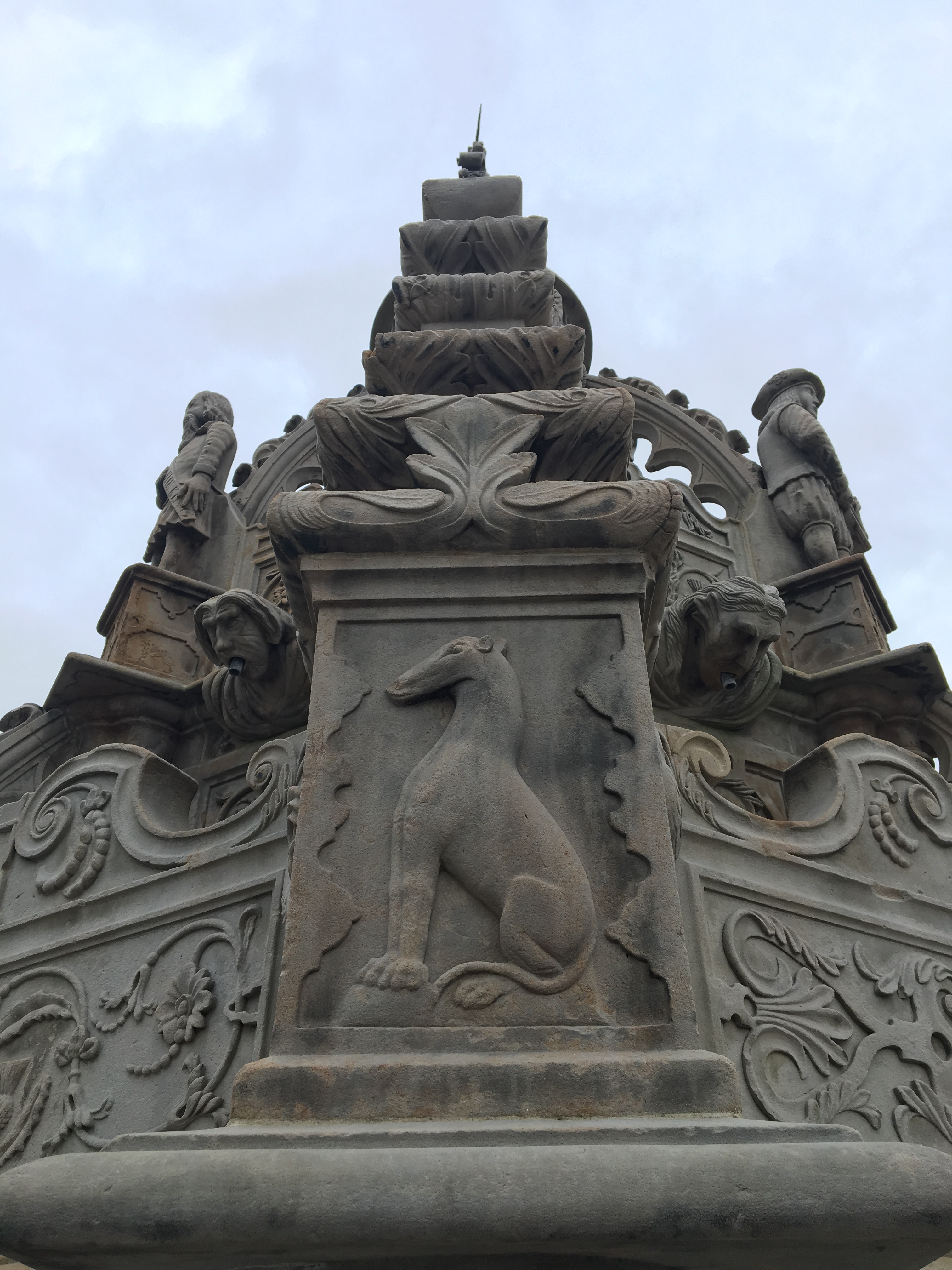 Linlithgow, The Cross, Cross Well Wikidata has entry Q17851281 with data related to this item.